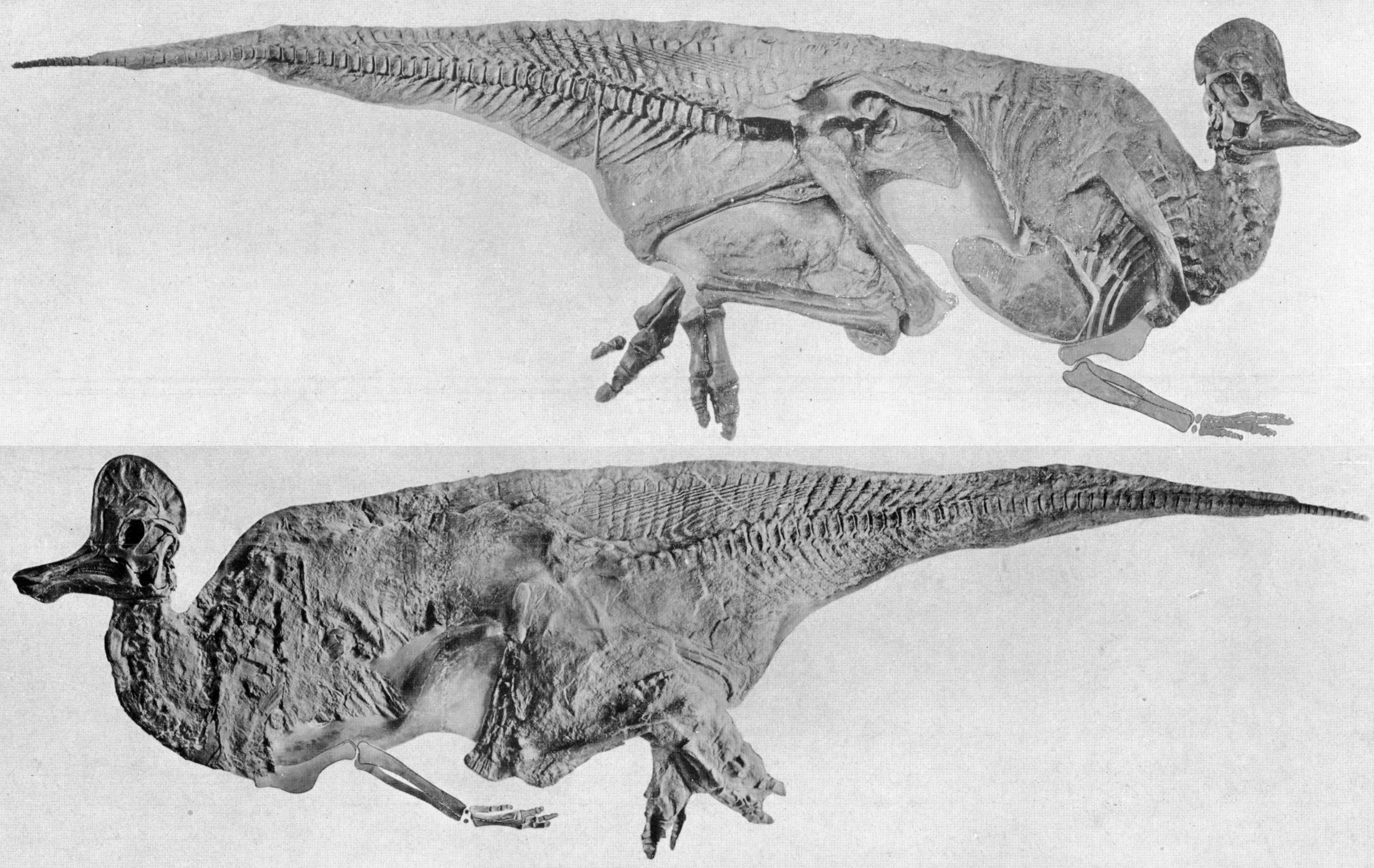 Corythosaurus casuarius skeleton (holotype AMNH 5240) partially covered in skin.